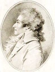 Portrait of the Italian opera singer Giovanni Morelli (floruit 1787-1815)